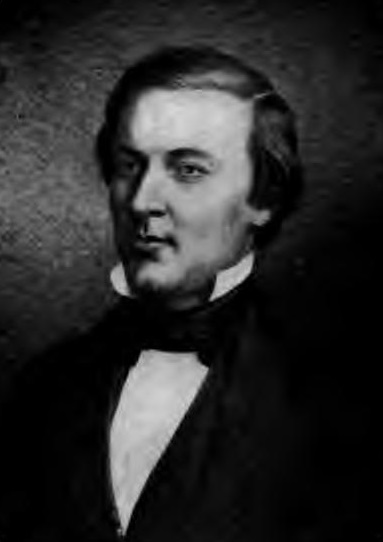 Millard Powers Fillmore (Son of President Millard Fillmore)